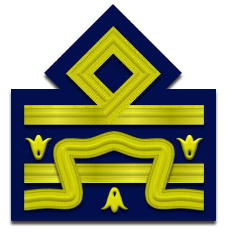 insignia for the sleeves of the rank of brigadier general of the Italian Air Force